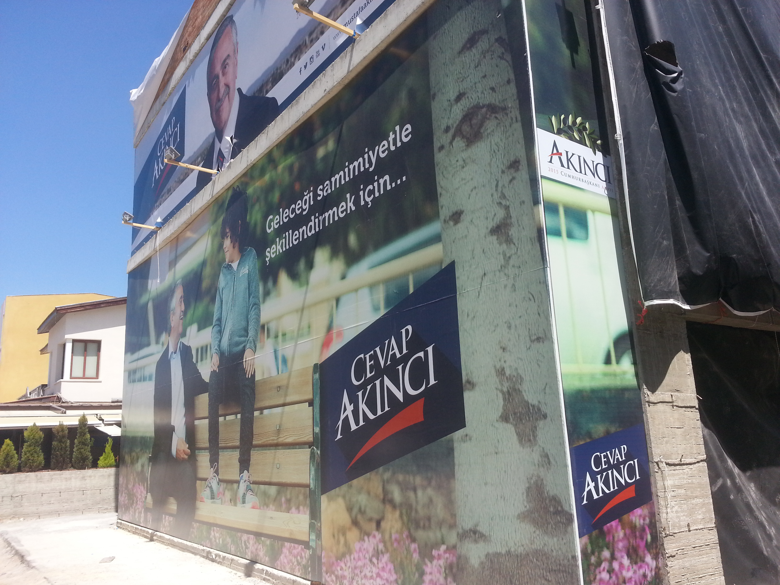 A building with posters promoting Mustafa Akıncı for his 2015 Turkish Cypriot presidential candidacy, in Dereboyu, North Nicosia.